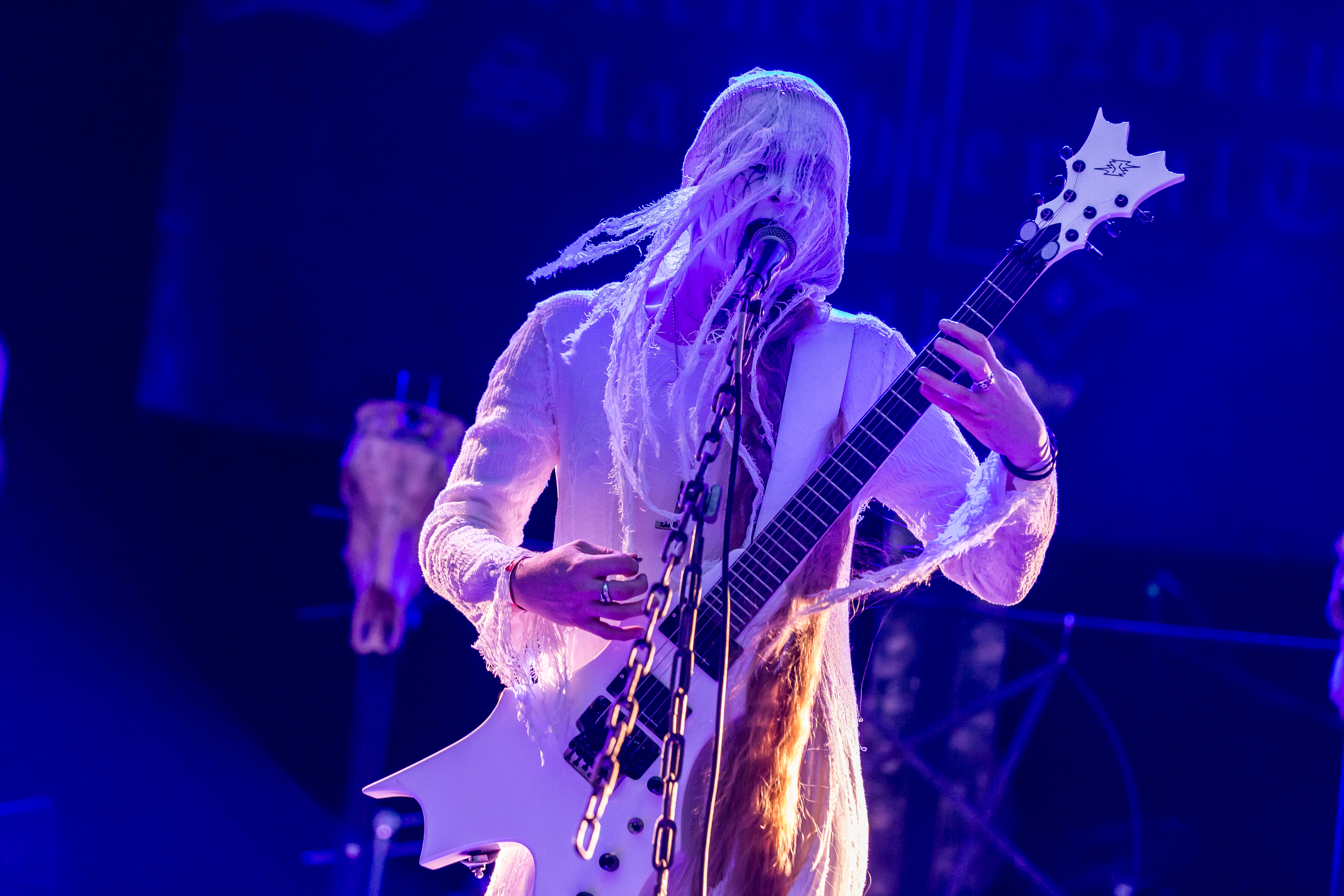 The German black metal band Darkened Nocturn Slaughtercult at the Party.San Metal Open Air 2016 in Obermehler-Schlotheim/Germany.